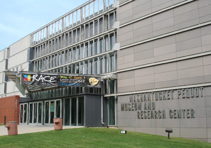 Exterior of the Mashantucket Pequot Museum, Ledyard, Connecticut